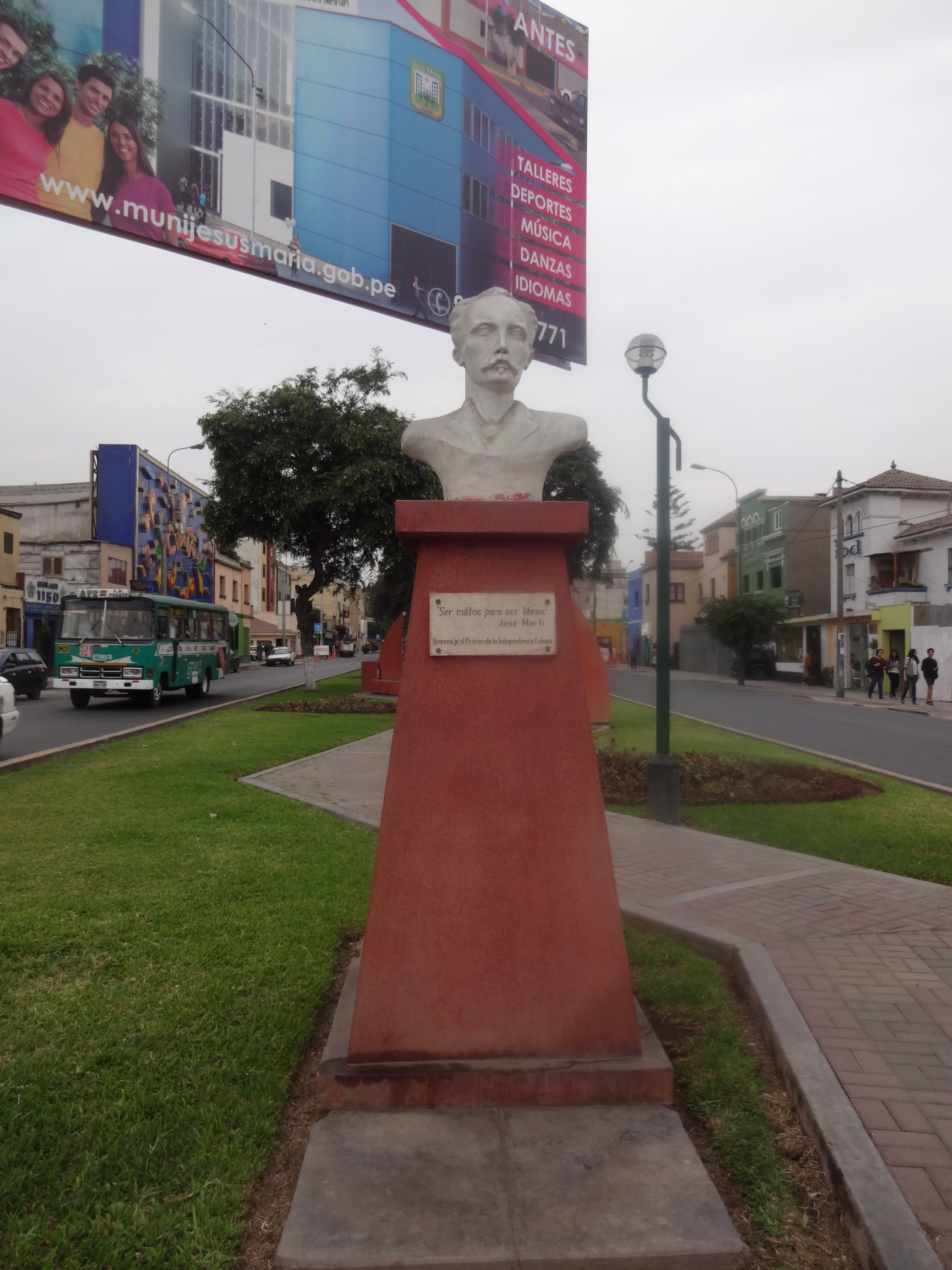 Bust of José Martí, Jesús María District, Lima-Peru.